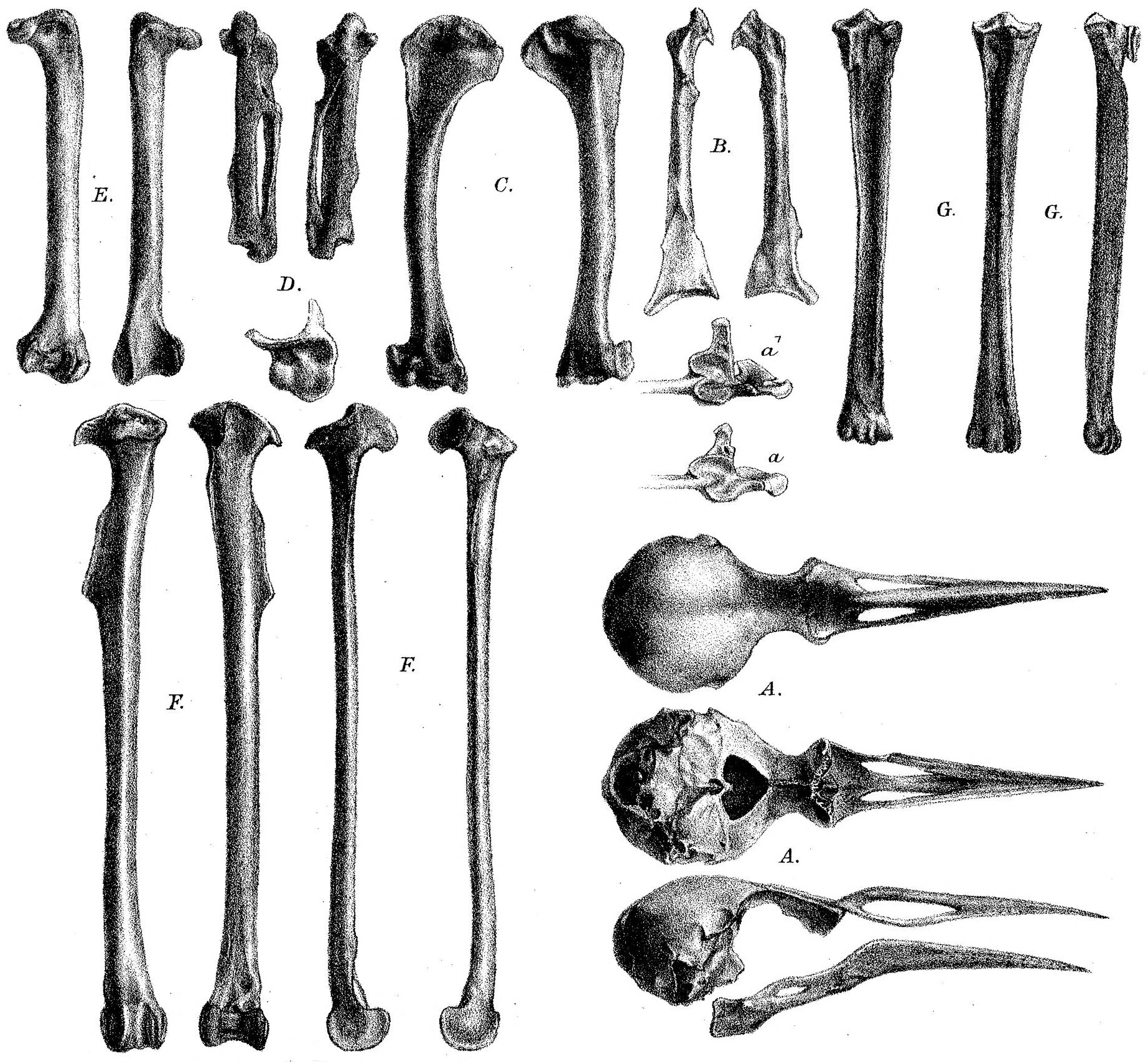 Lectotype skull and other paralectotype sub-fossil bones of Necropsar rodericanus.